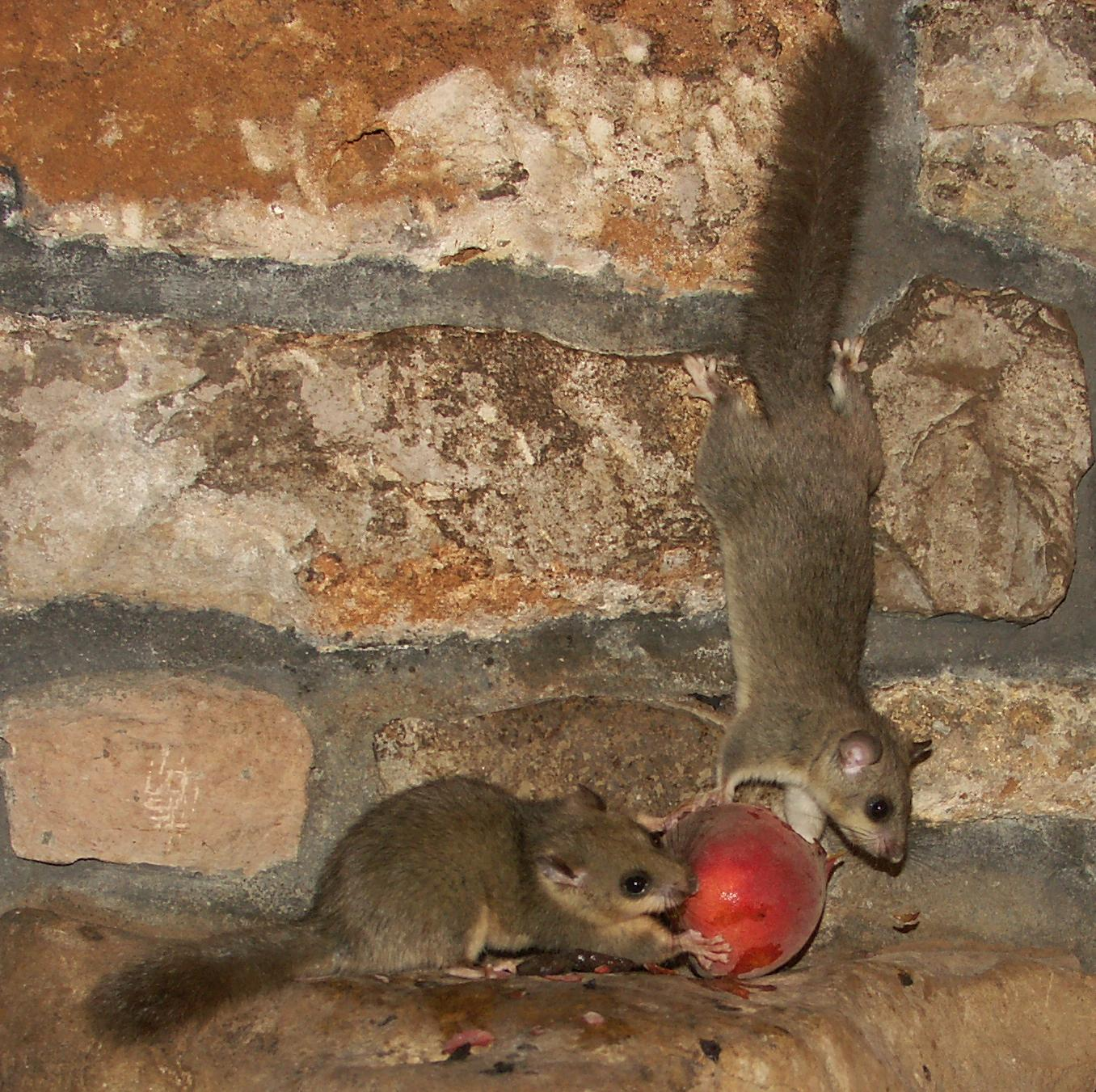 Dormice eating a peach